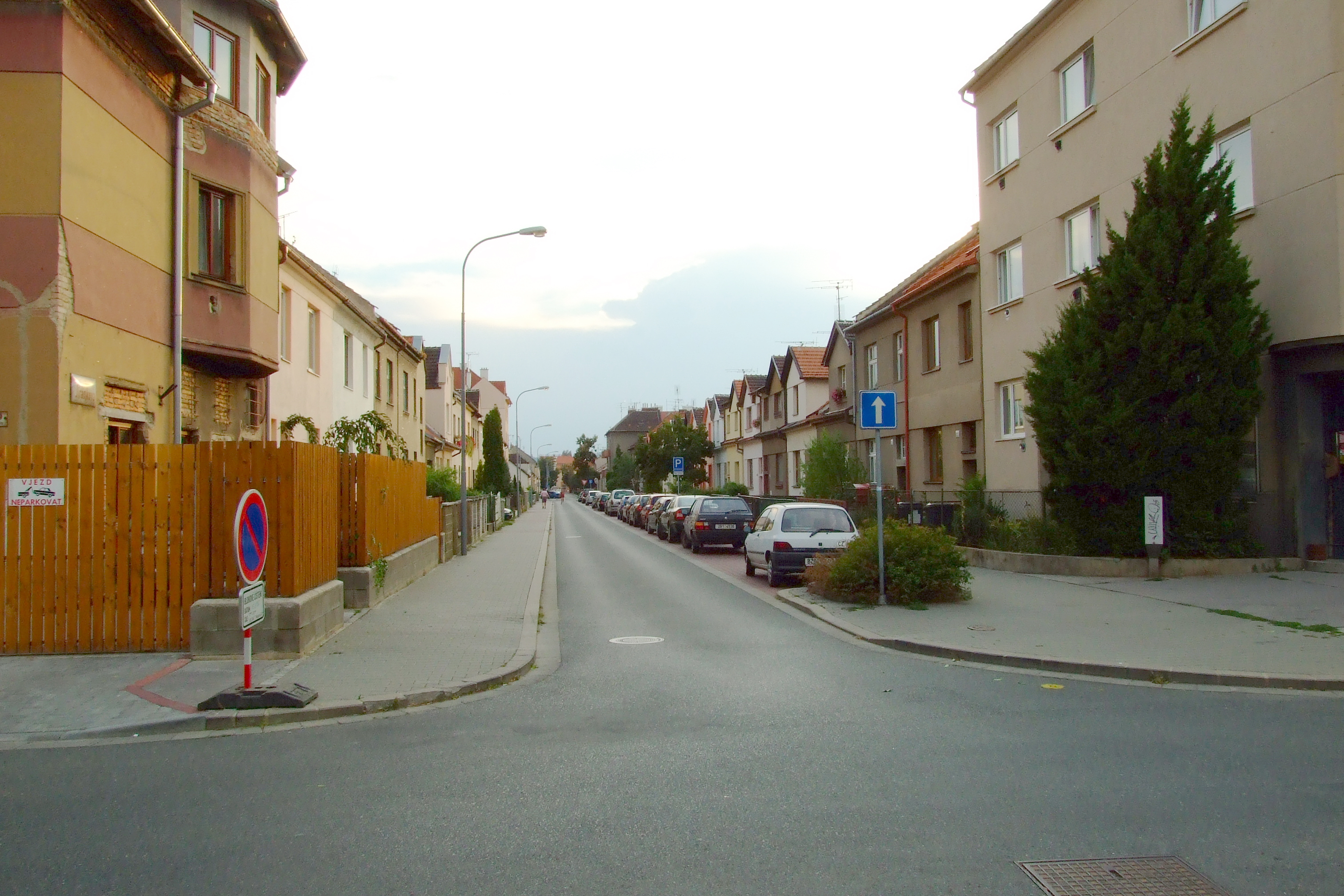 Brno-Černovice - Jiránkova street from east